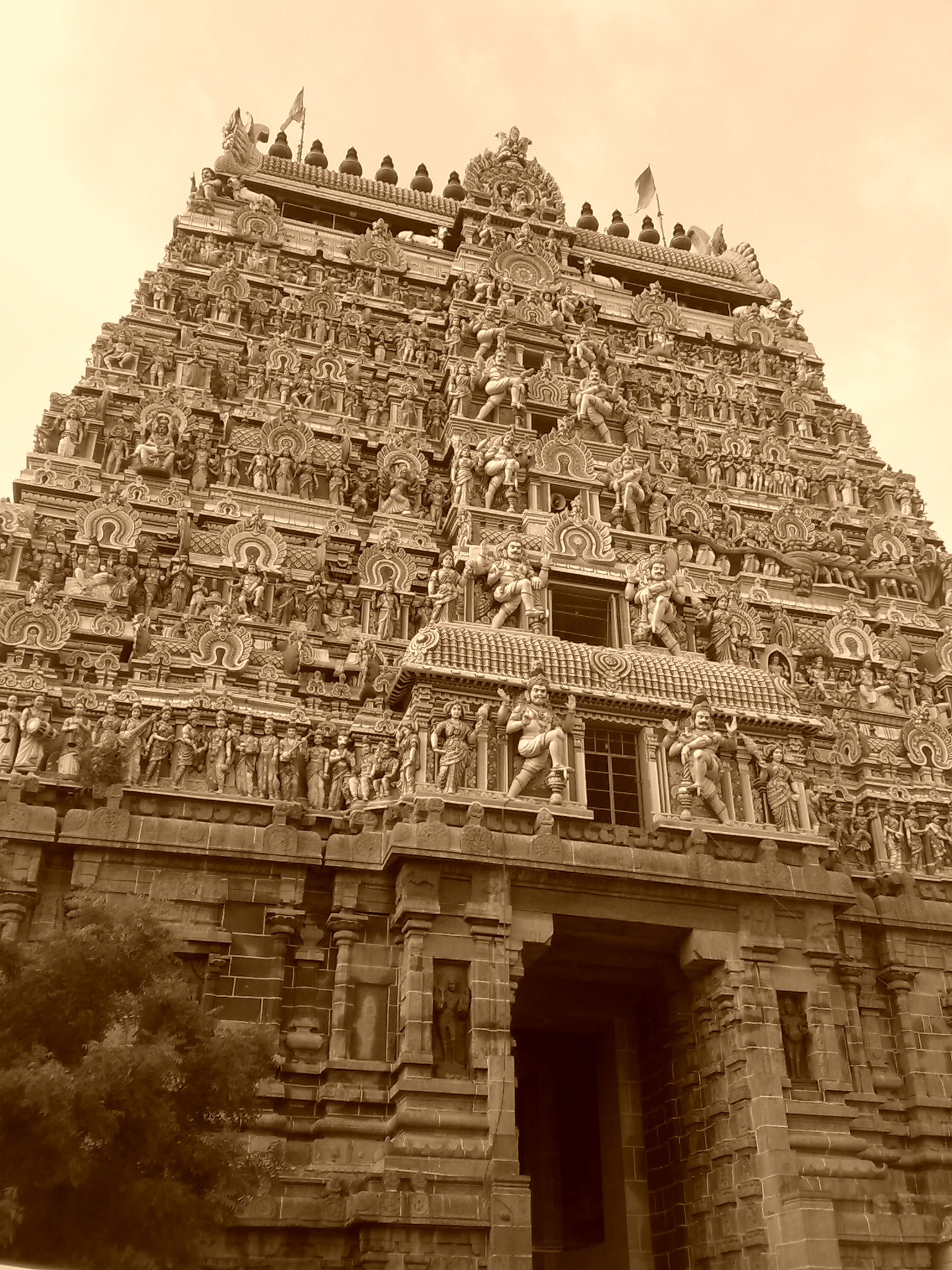 Took it during my school days